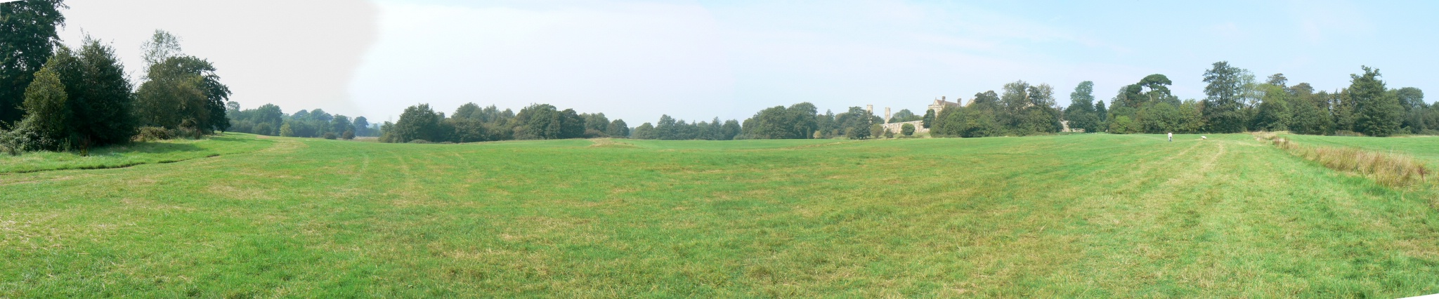 Hastings battlefield from a "Norman" point of view (2006). Notice the Abbey in the suppossed site of the shield wall.